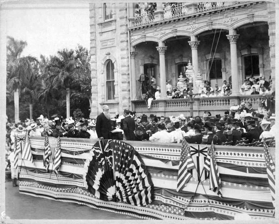 Sanford B. Dole and United State Minister Harold M. Sewall. With Dole accepts the transfer of authority from the Republic of Hawaii to the United States.